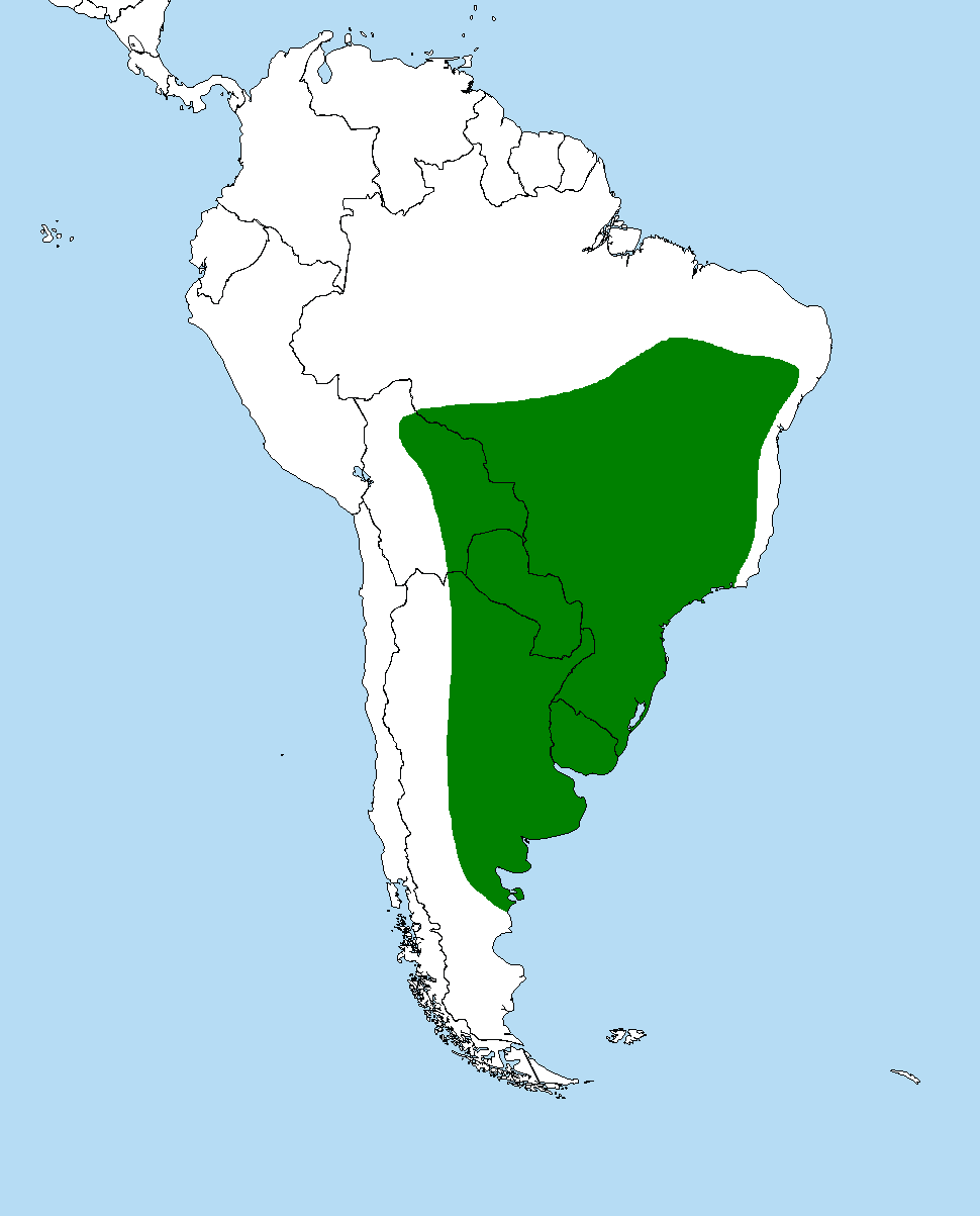 Rosttöpfer' (Furnarius rufus) Source: self made